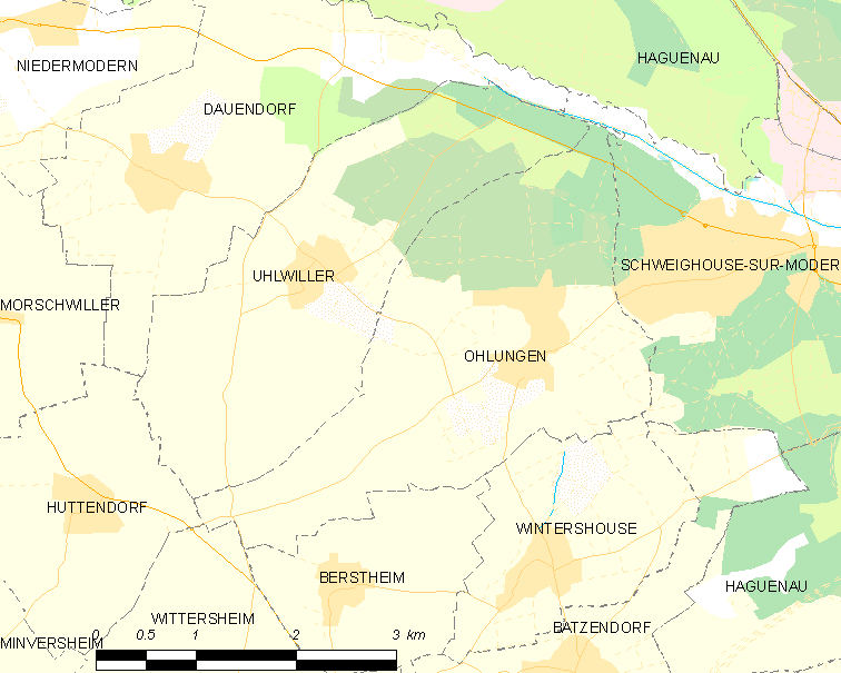 Map of French municipality